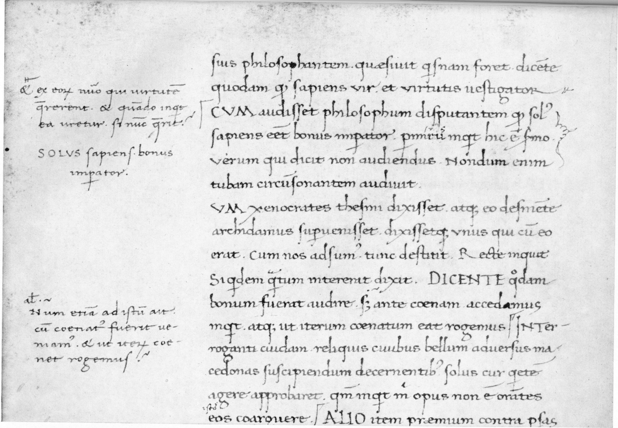 Antonio Beccadelli (Panormita), marginalia by himself in a manuscript of the latin Plutarch translation owned by Panormitas. Rom, Biblioteca Apostolica Vaticana, Vat. lat. 3349, fol. 161v.